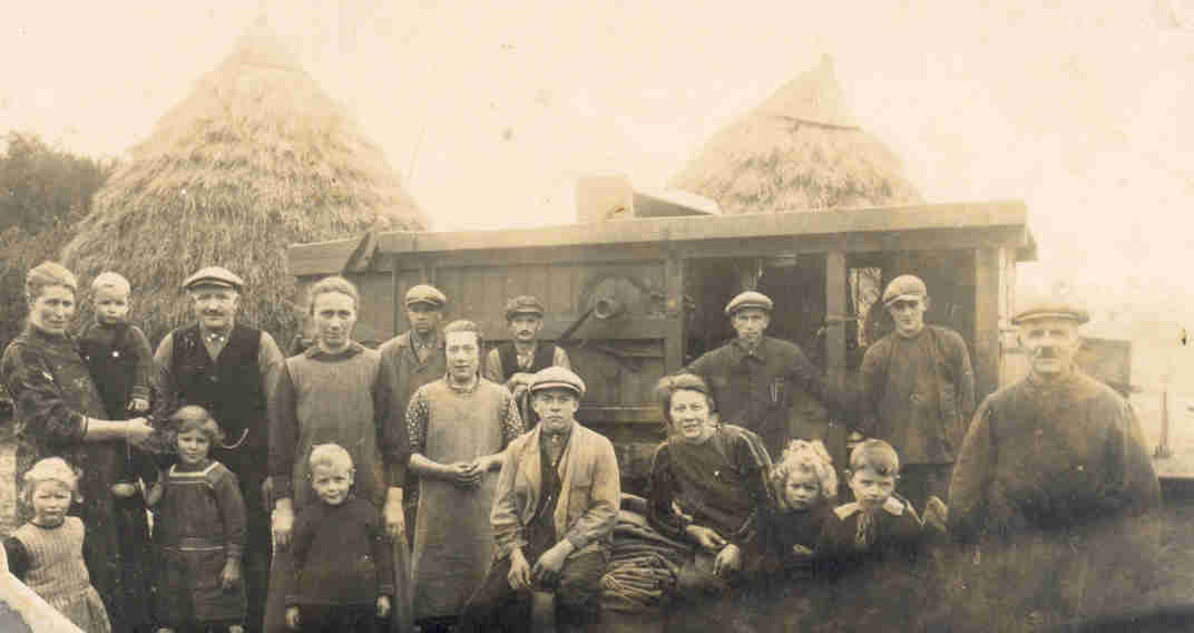 The Lovink family posing at the place that's now the Calslaan (street).